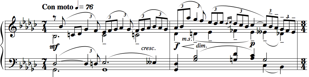 A section in Six Moments Musicaux, No. 1. The piece, composed by Sergei Rachmaninoff in 1896 was published before 1923, and thus is in the public domain. See also Image:MM1 excerpt.ogg.